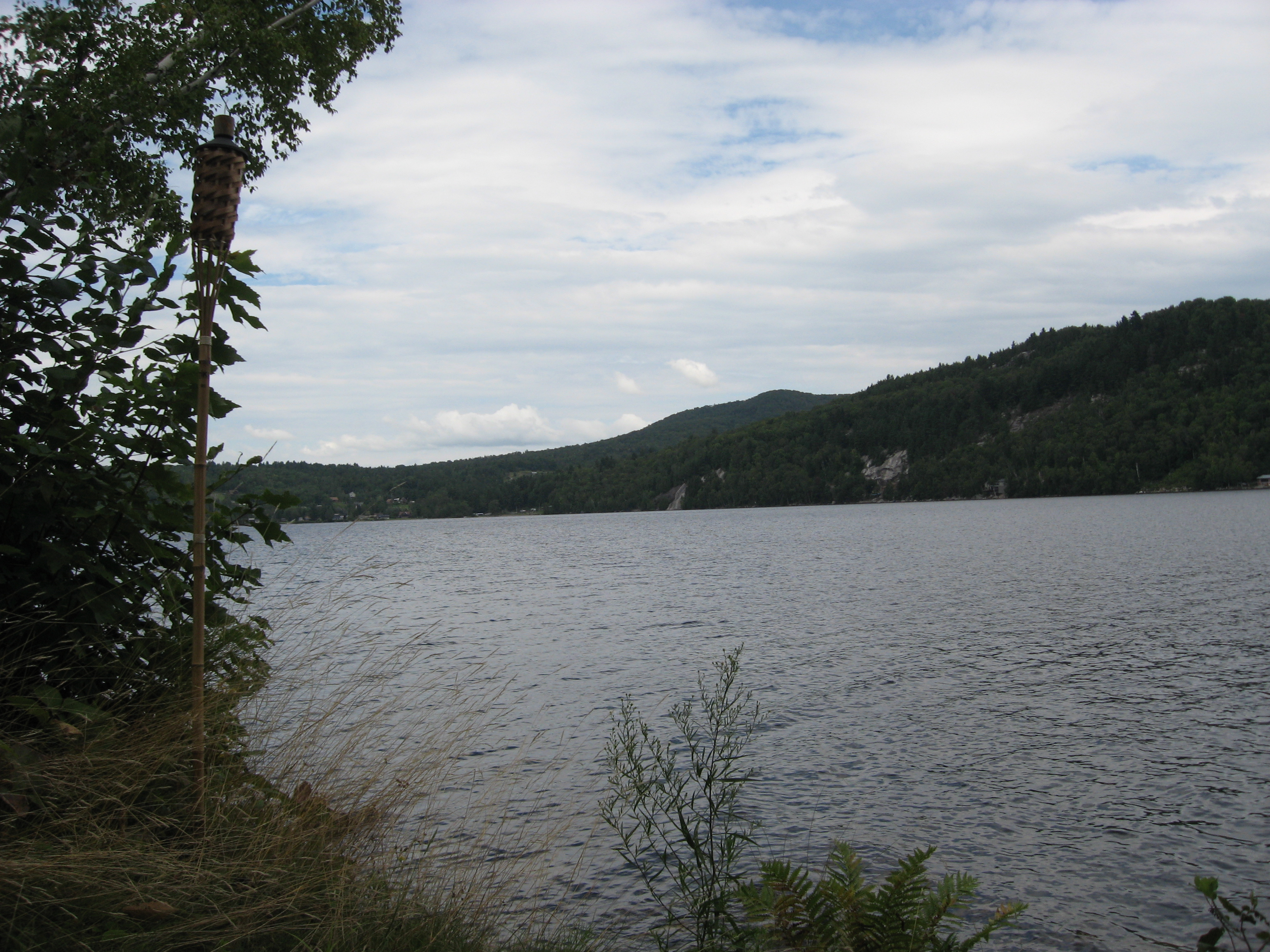 Crystal Lake, Vermont in August 2010